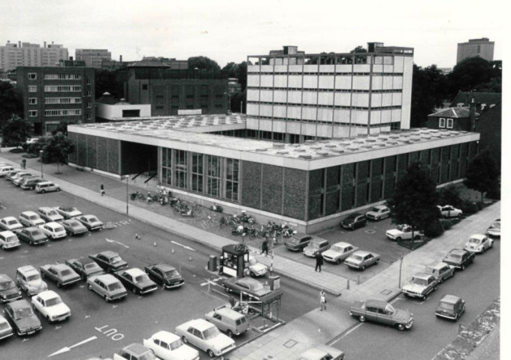 Norwich central library, built in 1962, destroyed by fire in 1994